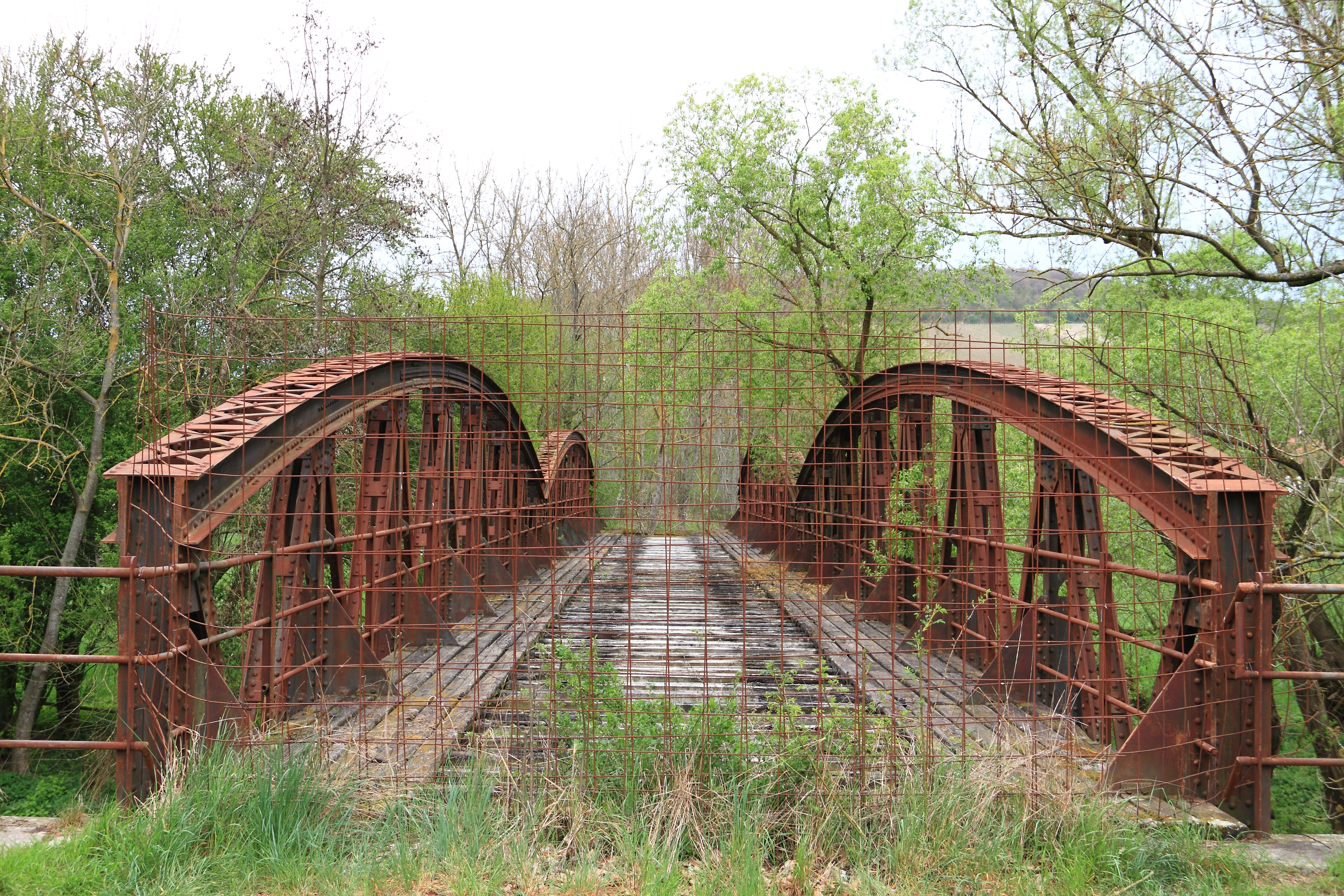 Leftovers of a railway bridge of the Gaubahn between Weikersheim and Schäftersheim.